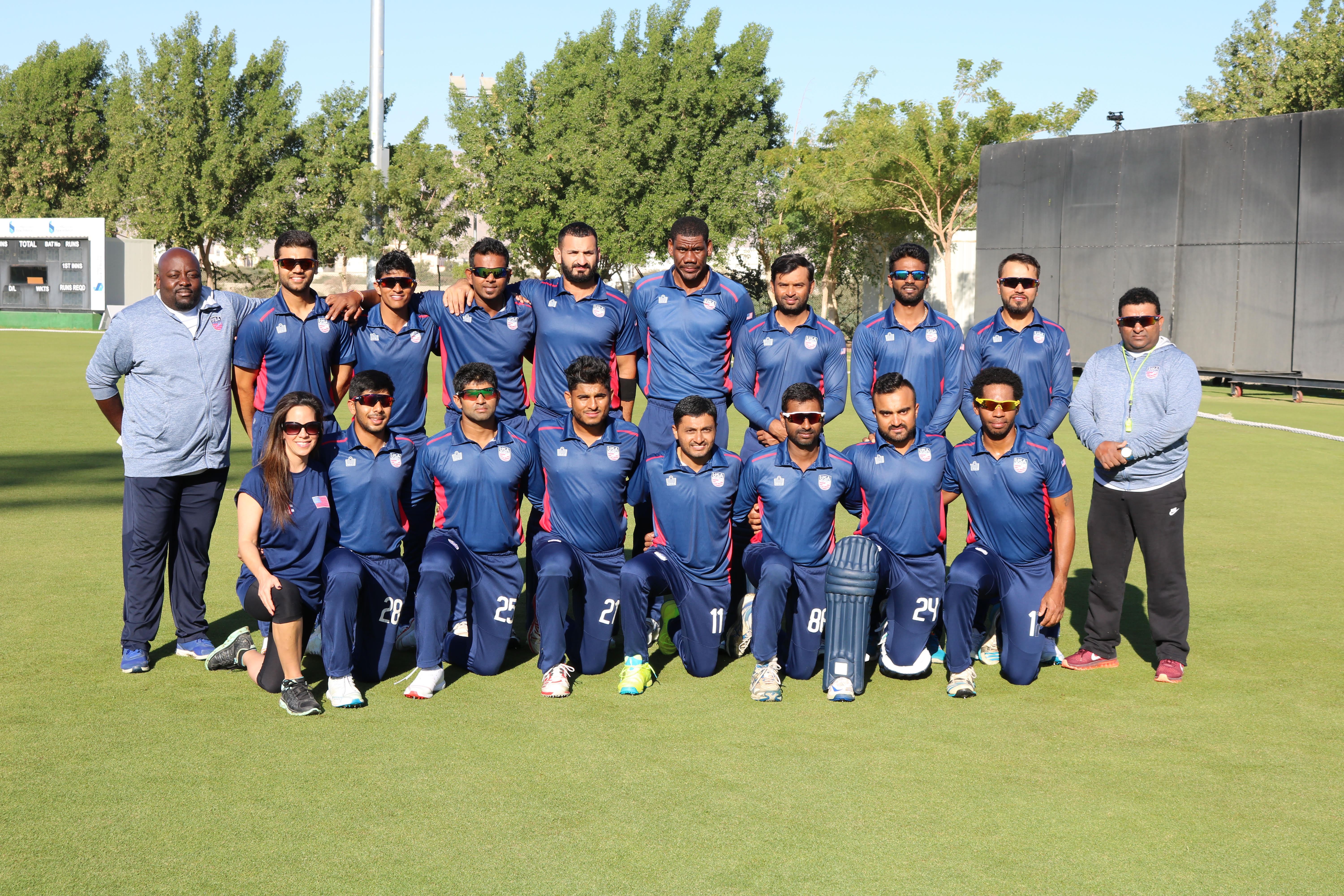 The United States of America Men's National Cricket Squad pictured on their tour of the Middle East 2017 where they played against Oman, Nepal and Kenya.